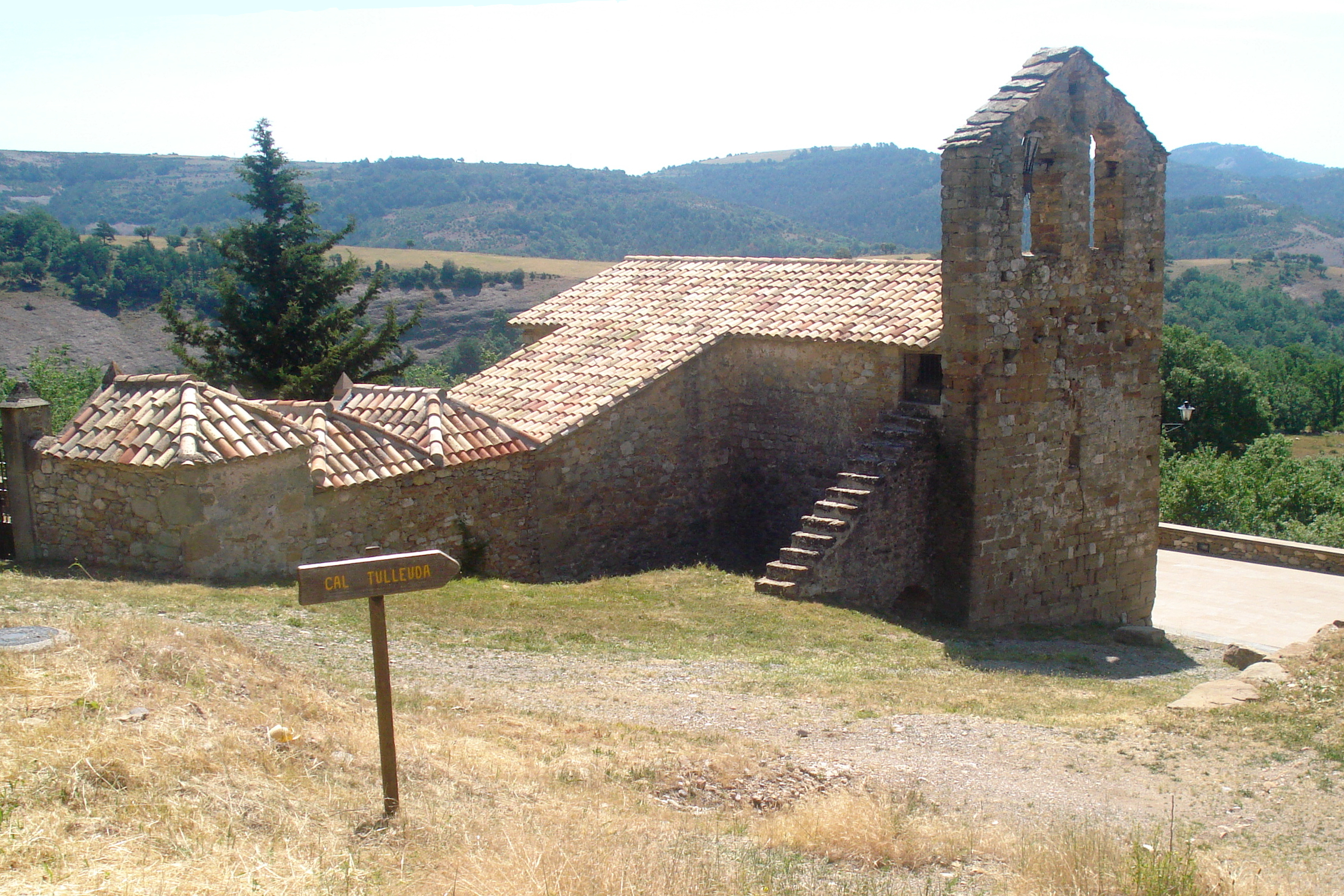 Churche of Sant Julià de Canalda